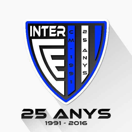 Inter club d'Escaldes 25 years anniversary badge.